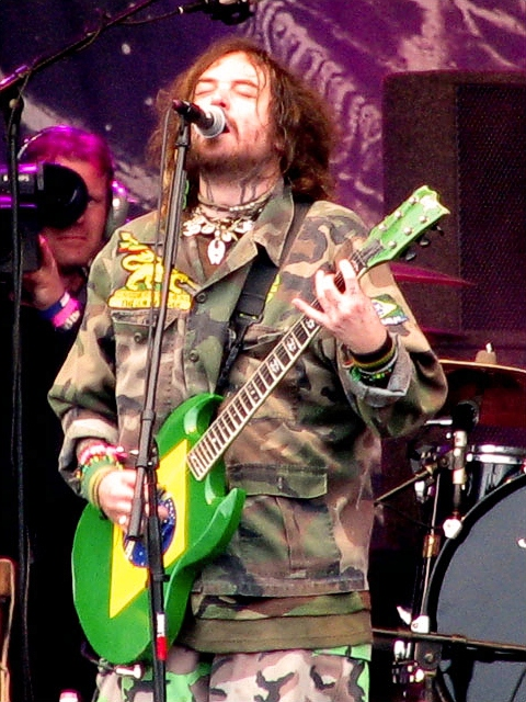 Max Cavalera from Soulfly live @ Pinkpop Festival, Landgraaf